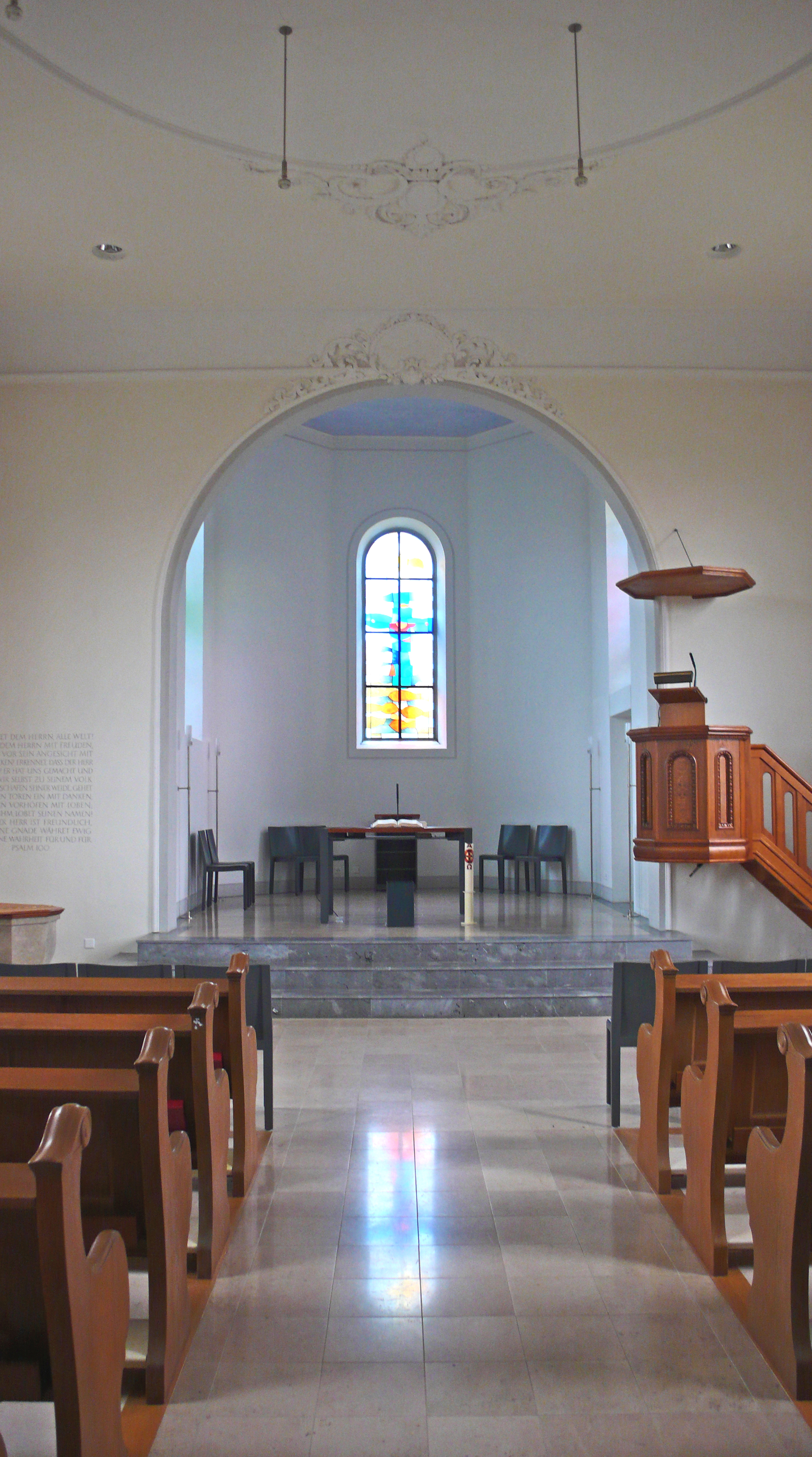 Interior view of the church of Scherzingen, Switzerland.